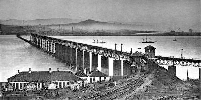 Tay Rail Bridge, Dundee, Scotland, shortly after the 1879 collapse of the bridge, seen from the south.